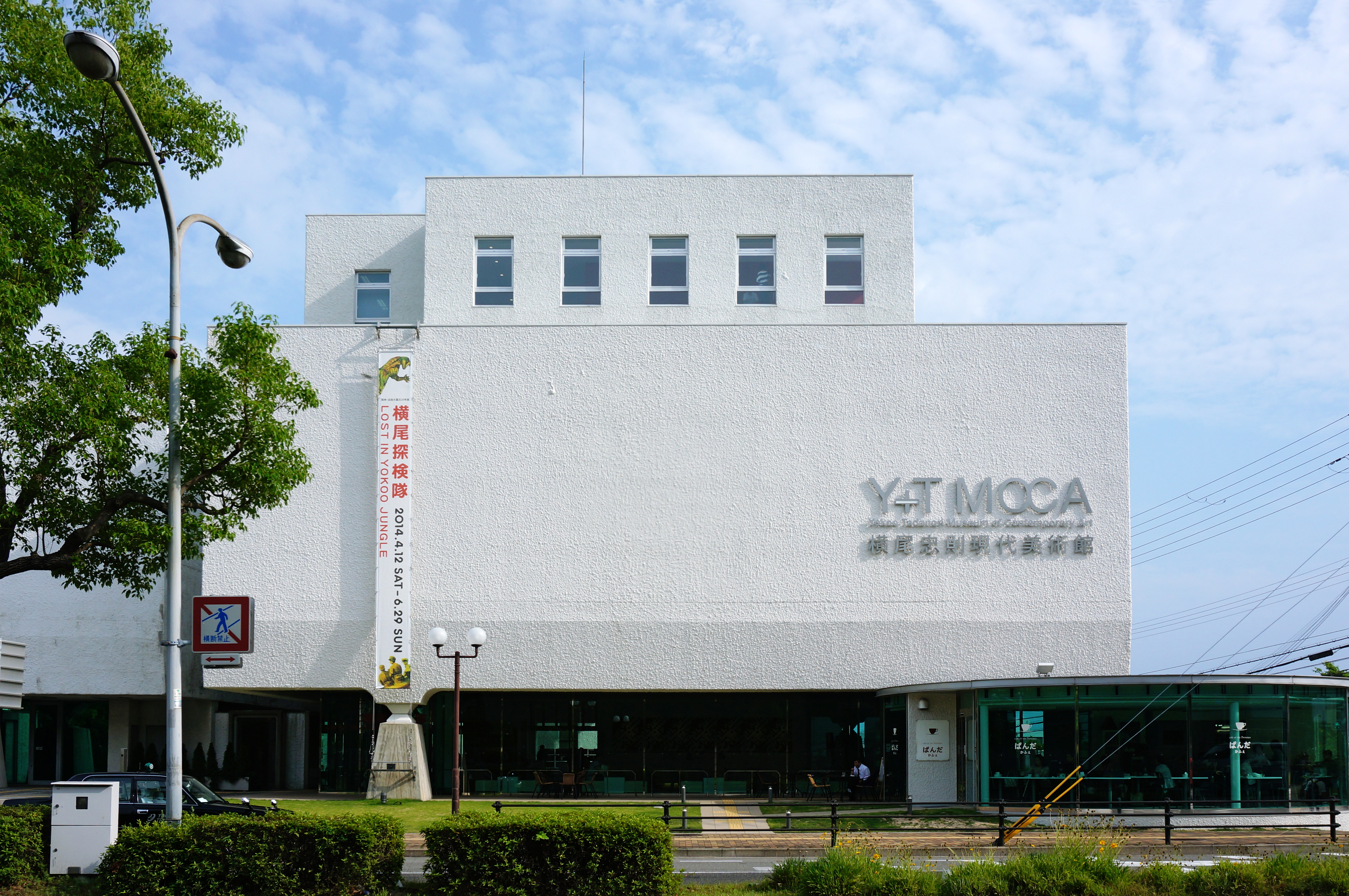 Yokoo Tadanori Museum of Contemporary Art in Kobe, Hyogo prefecture, Japan